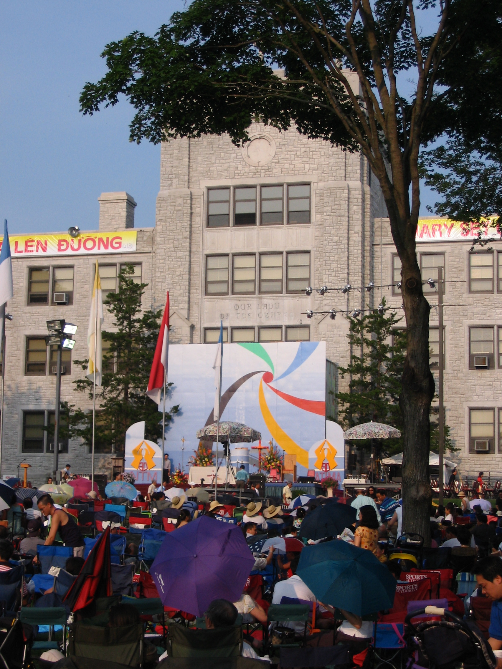 The Roman Catholic mass backdrop for the Vietnamese American Roman Catholicism festival, Marian Days.